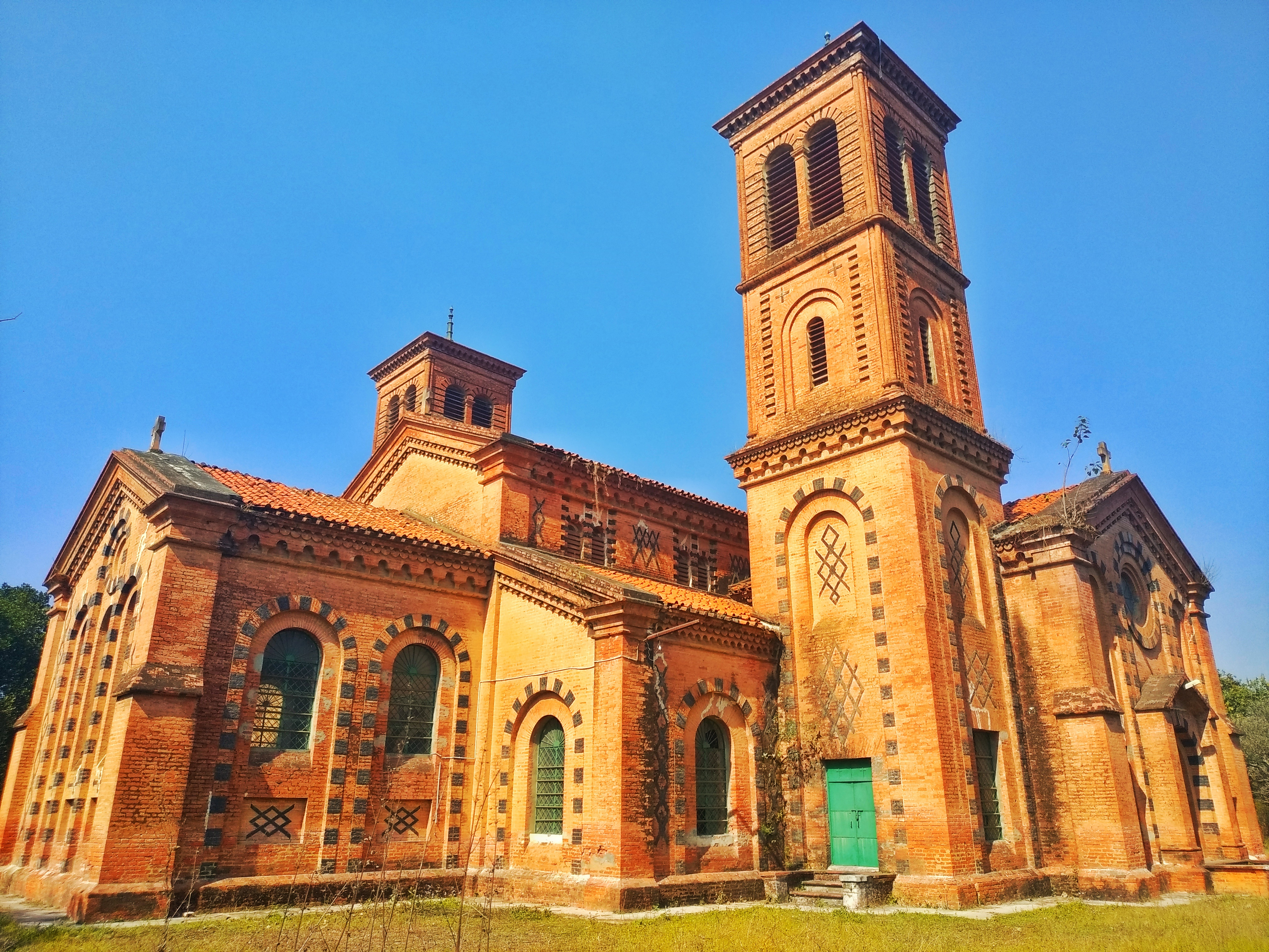 St Stephen's Bareilly